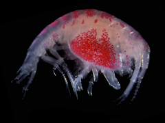 A female amphipod sampled on the Belgian Continental Shelf. This image was created with Zerene Stacker.